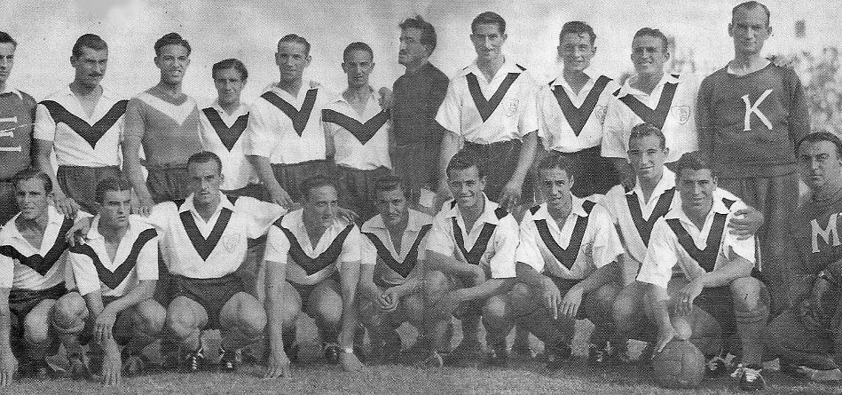 The 1943 Vélez Sársfield football team that won the Primera B title returning to Primera División.